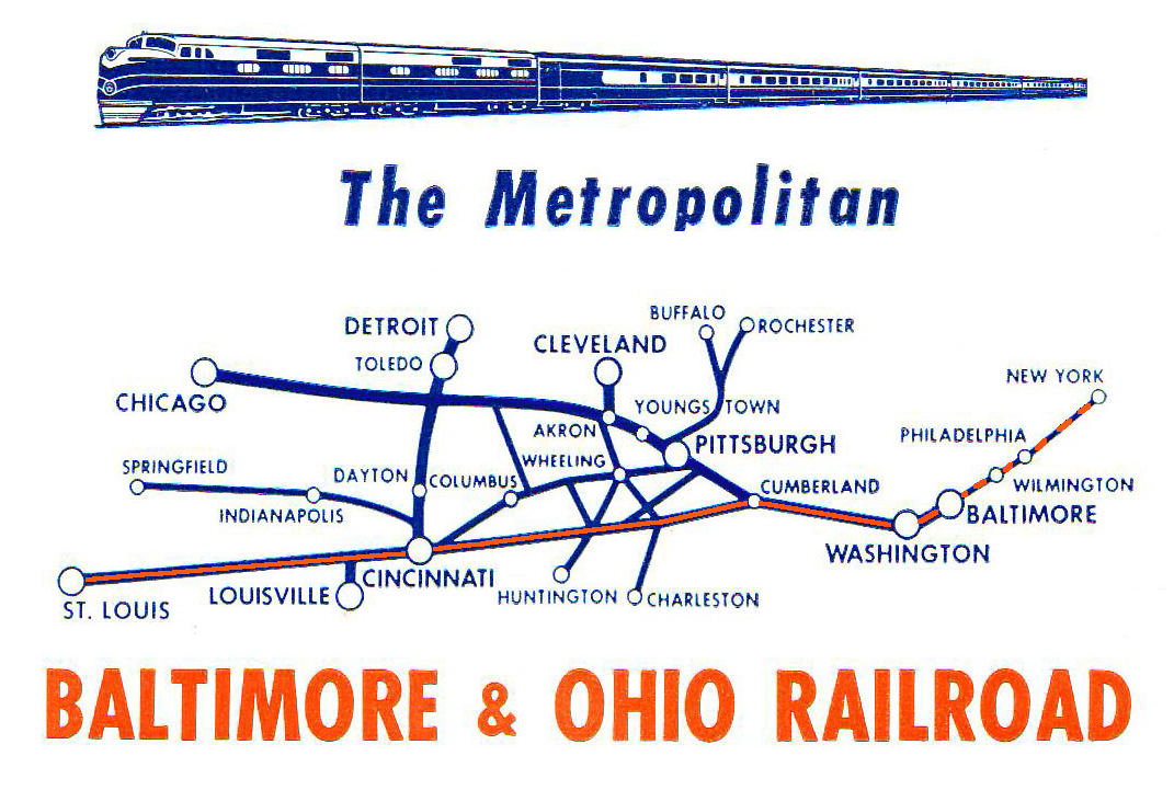 Baltimore and Ohio Railroad (B&O) system map in 1960, with the route of the Metropolitan Special highlighted in orange . The dotted line segment between Baltimore and New York City operated only until 26 April, 1958.